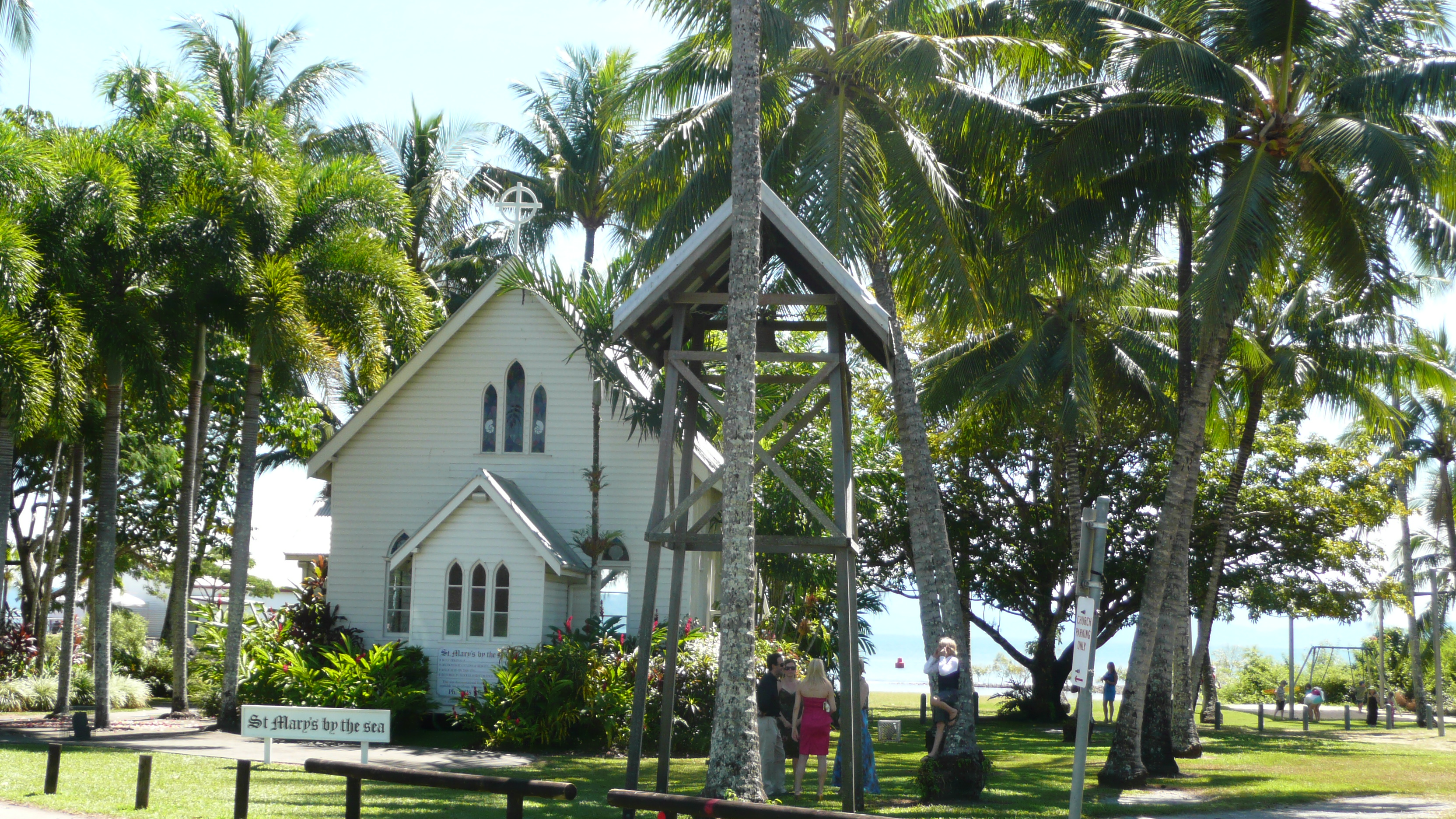 St Mary's by the Sea (former Catholic church 1914-1988), Port Douglas